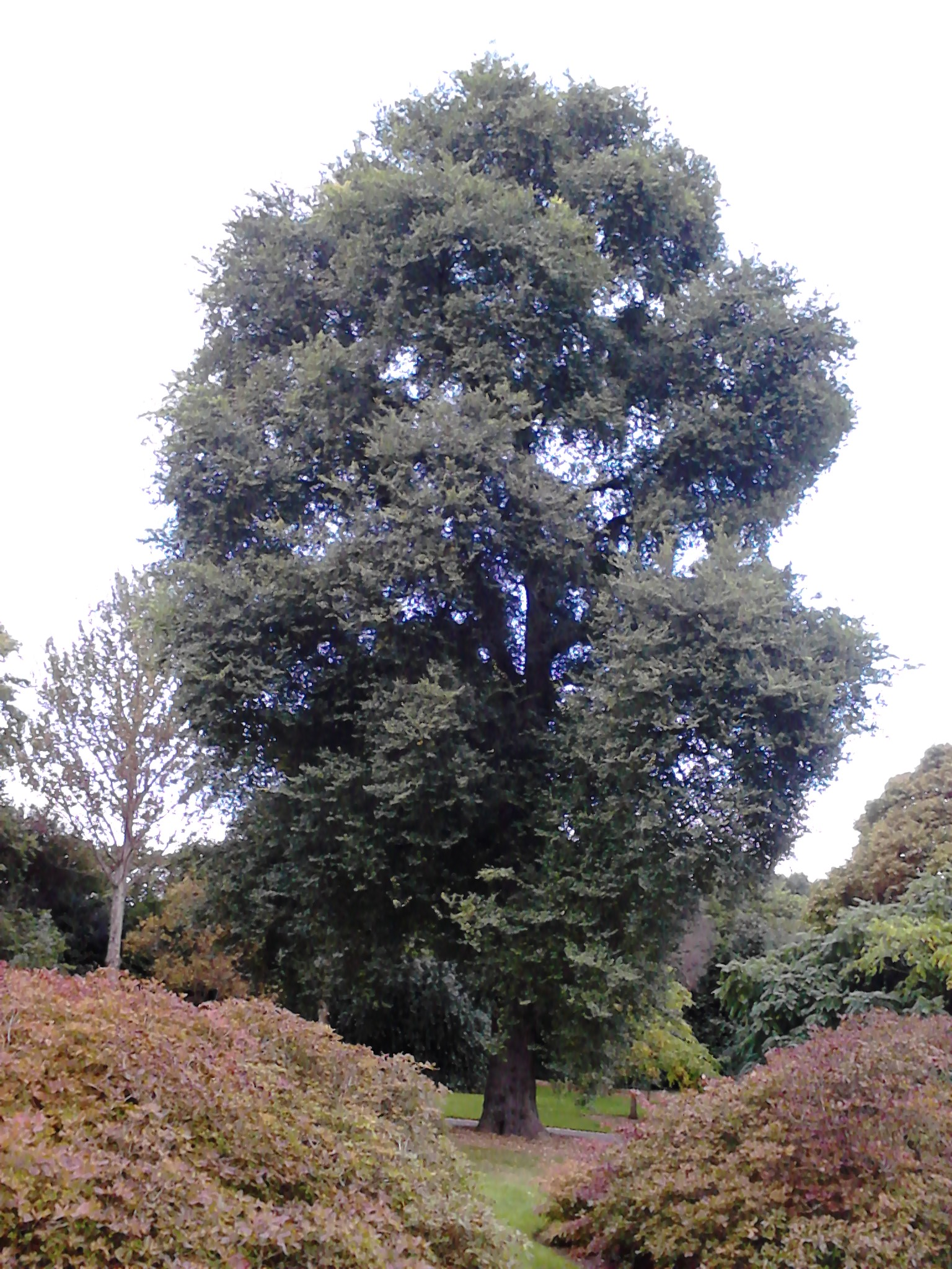 Ulmus minor. Royal Botanic Gardens, Edinburgh